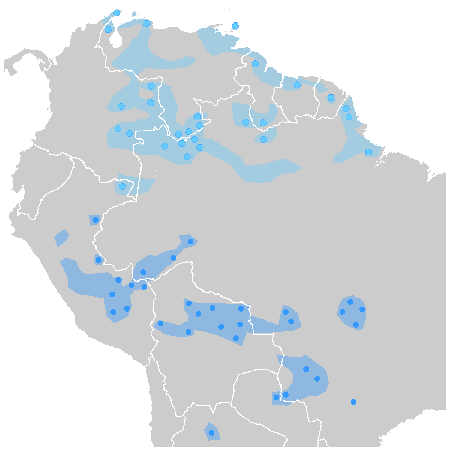 North Arawakan languages (light blue) and South-Western Arawak (dark blue) documented languages areas and approximate early probable areas. Based on data of Alexandra Y. Aikhenvald "The Arawak Languages" in The Amazonian Languages, Dixon & Alexandra Y. Aikhenvald (eds.), Cambridge: Cambridge University Press, 1999. p. 65-106.